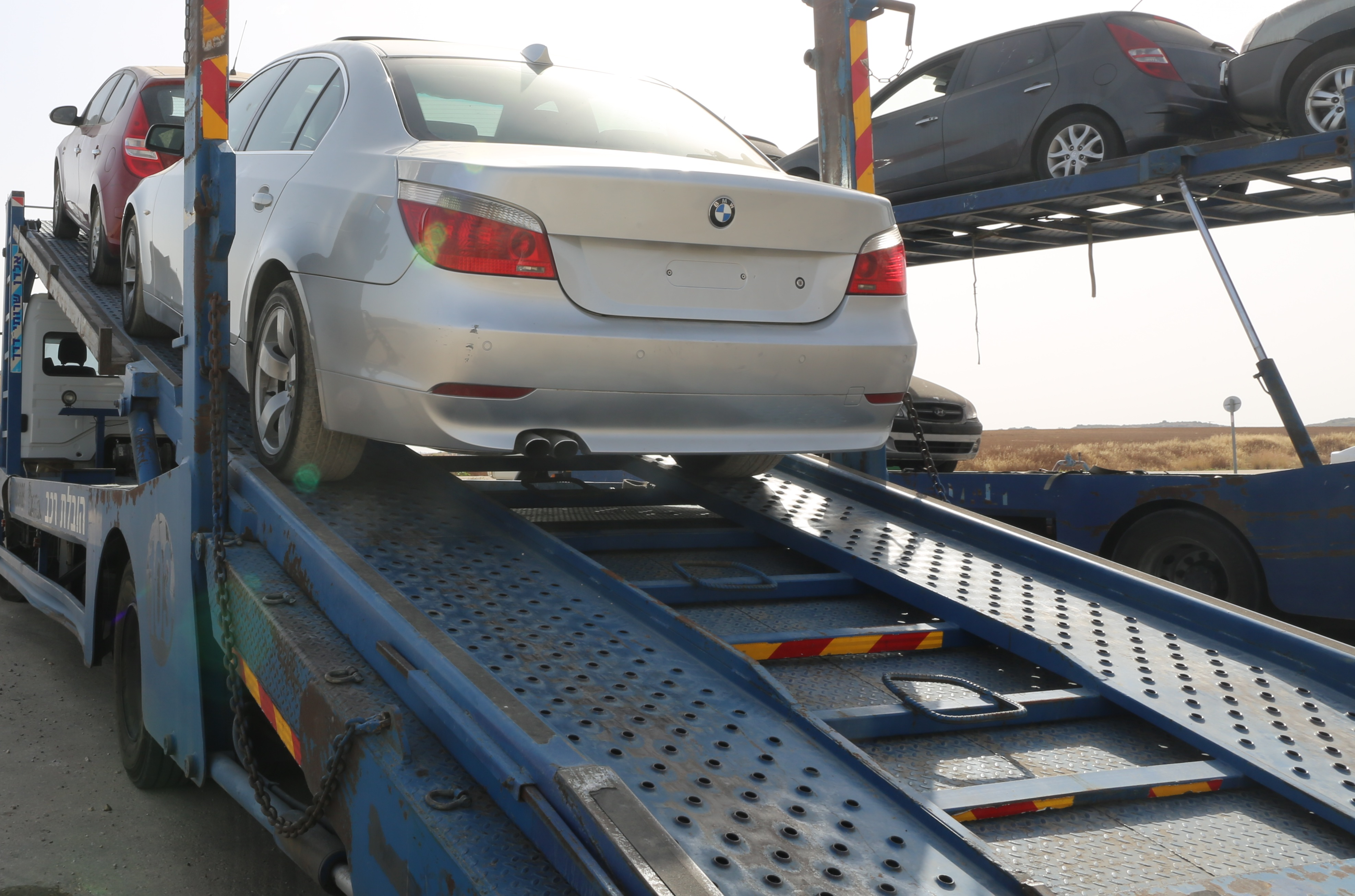 The IDF helped facilitate the transfer of a shipment of luxury vehicles into the Gaza Strip via the Kerem Shalom crossing. May 29, 2012 The Israel Defense Forces Facebook The Israel Defense Forces blog The Israel Defense Forces website The Israel Defense Forces Twitter